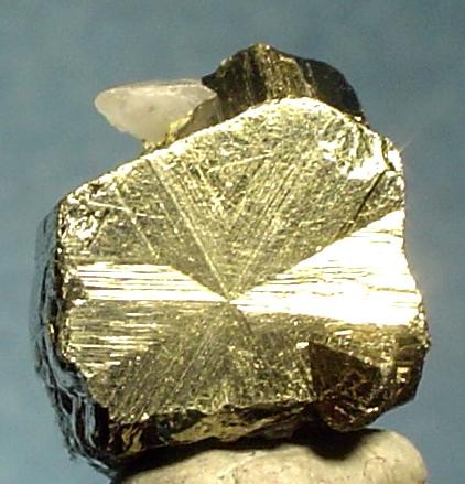 Cubanite Locality: Henderson No. 2 mine, Chibougamau, Nord-du-Québec, Québec, Canada (Locality at ) Size: 1.1 x 1.0 x 1.0 cm. A superb thumbnail of a lustrous, brass-yellow cubanite crystal from the Henderson #2 Mine at Chibougamau, Quebec. The fat crystal features the classic six-ling twinning and striations common to cubanite crystals and is nicely accented by a smaller cubanite and a nail-head calcite rhomb. Ex. Irv Brown Collection.